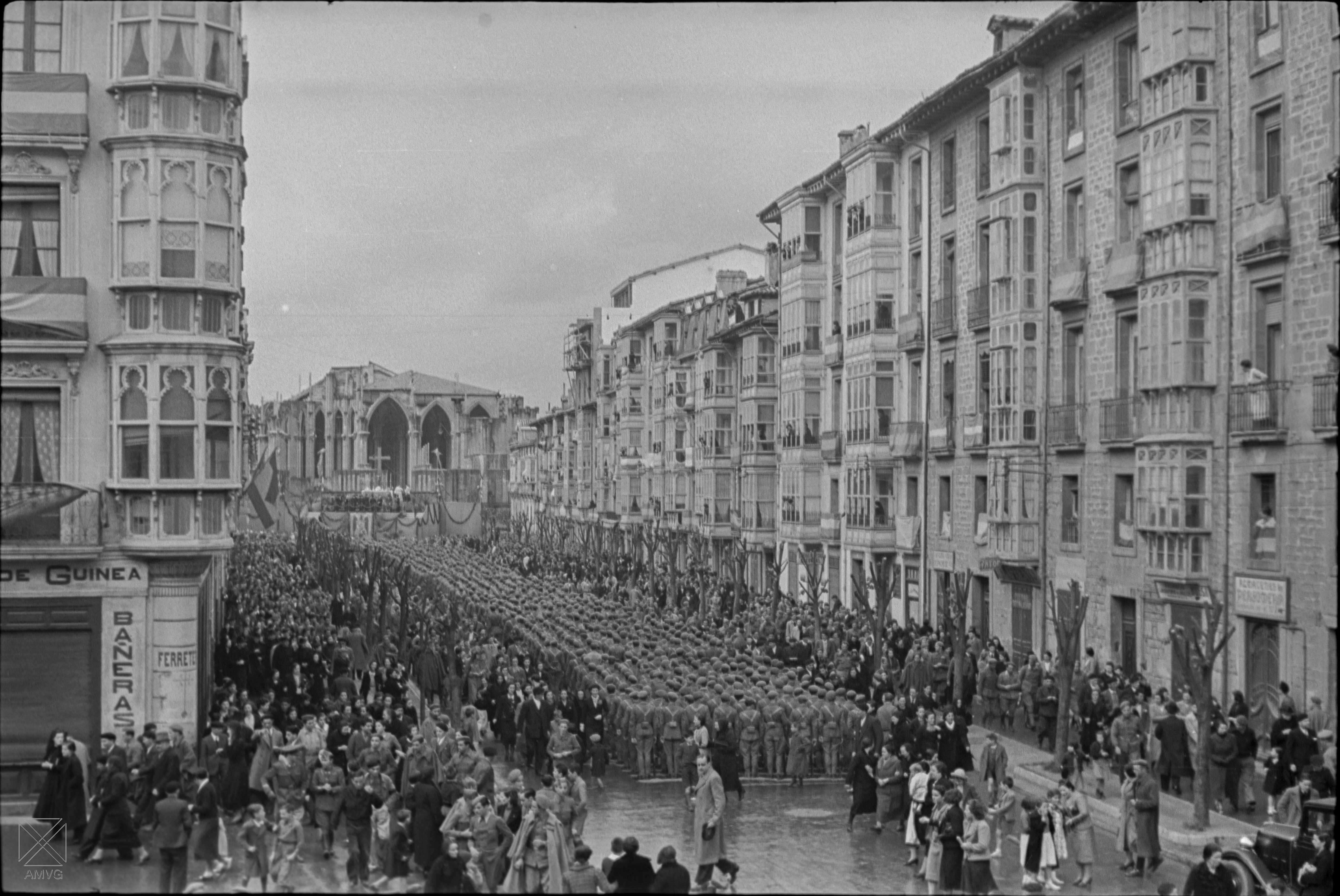 Soldiers from Franco's army celebrate the war victory in Vitoria